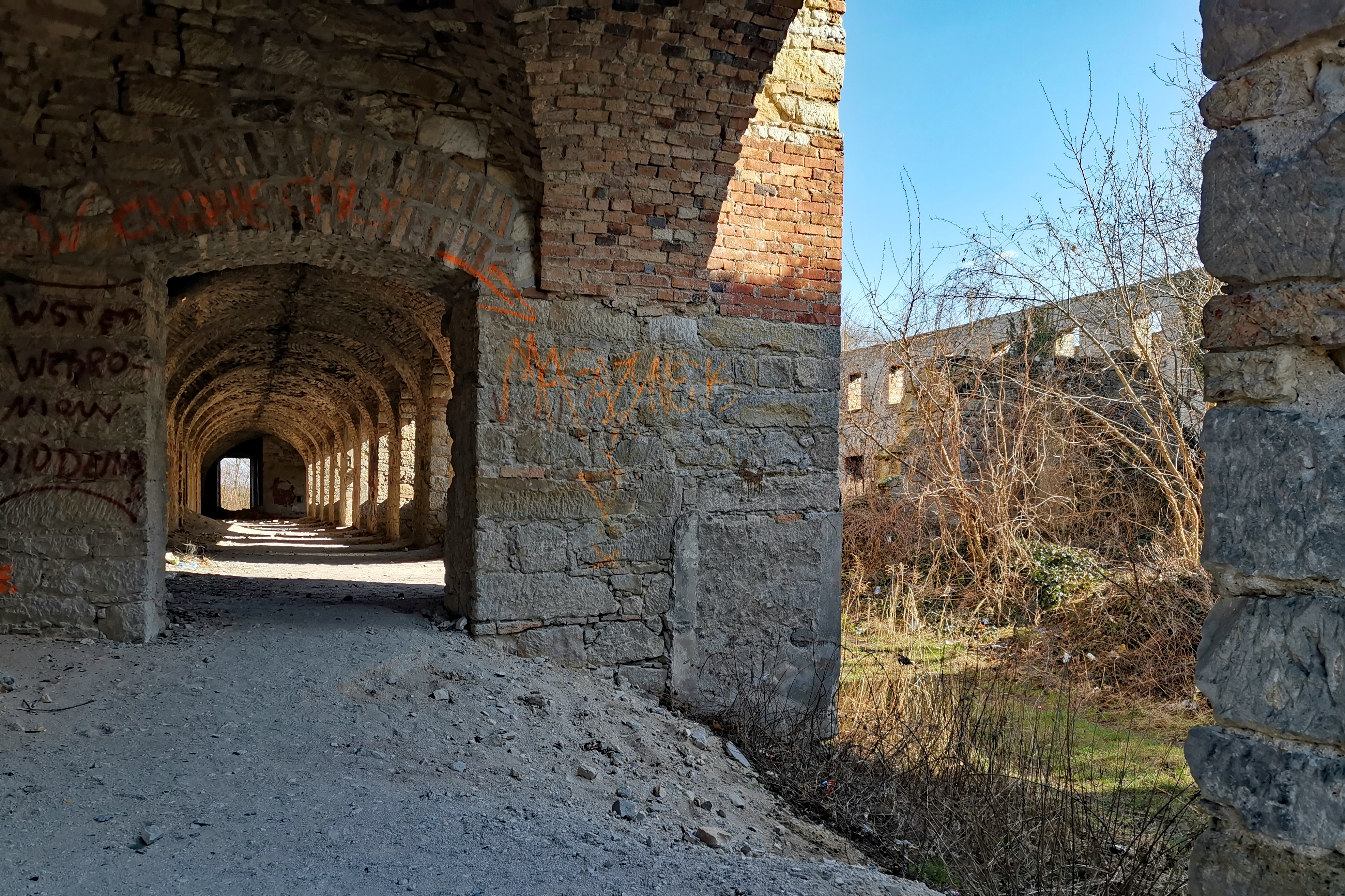 Nowogrodziec (Lower Silesian Voivodeship, Poland)